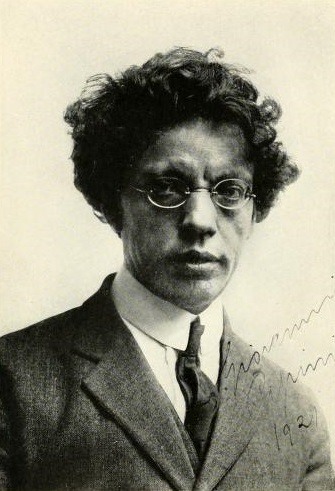 Portrait photograph of Giovanni Papini